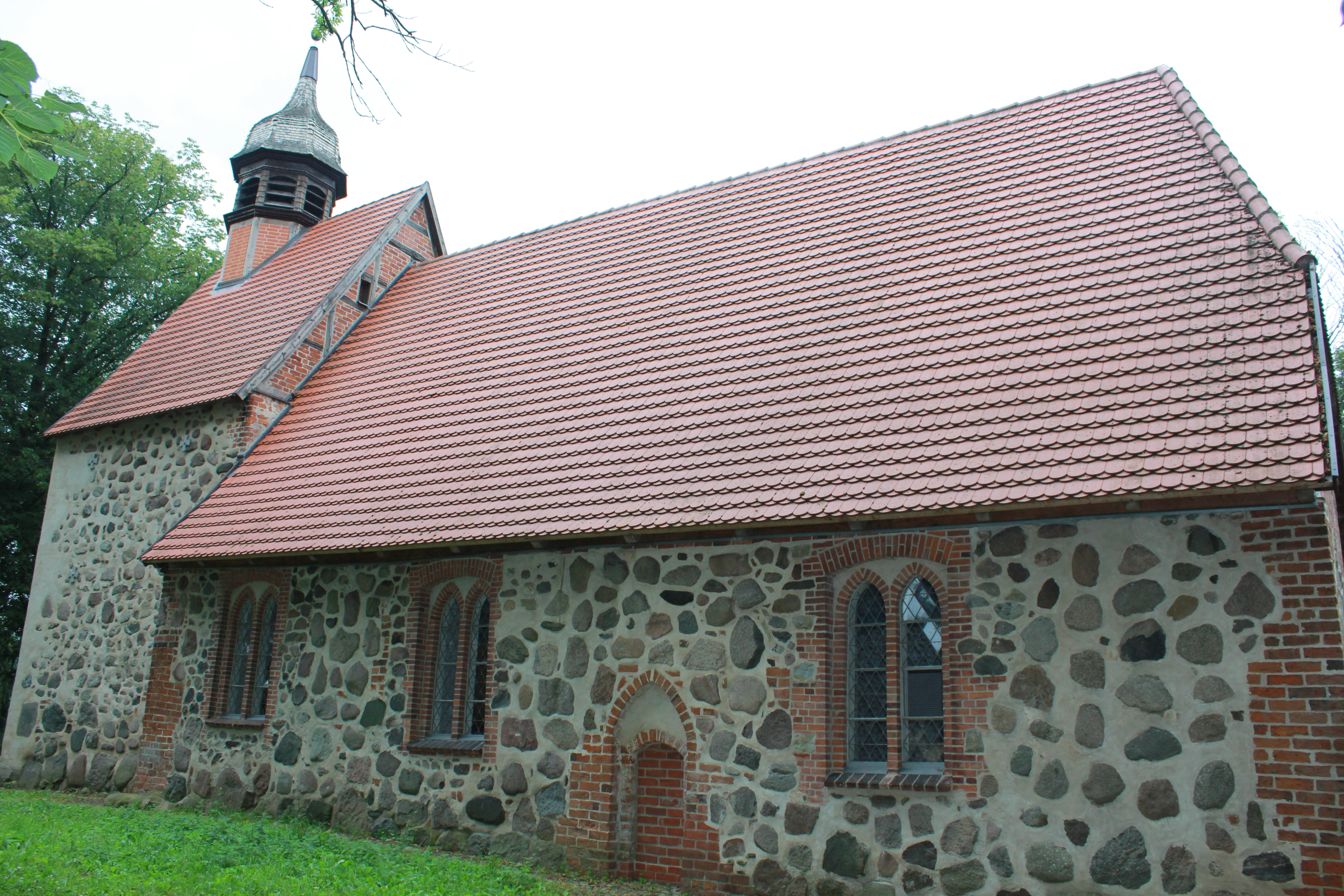 Church in Gross Poserin near Neu Poserin